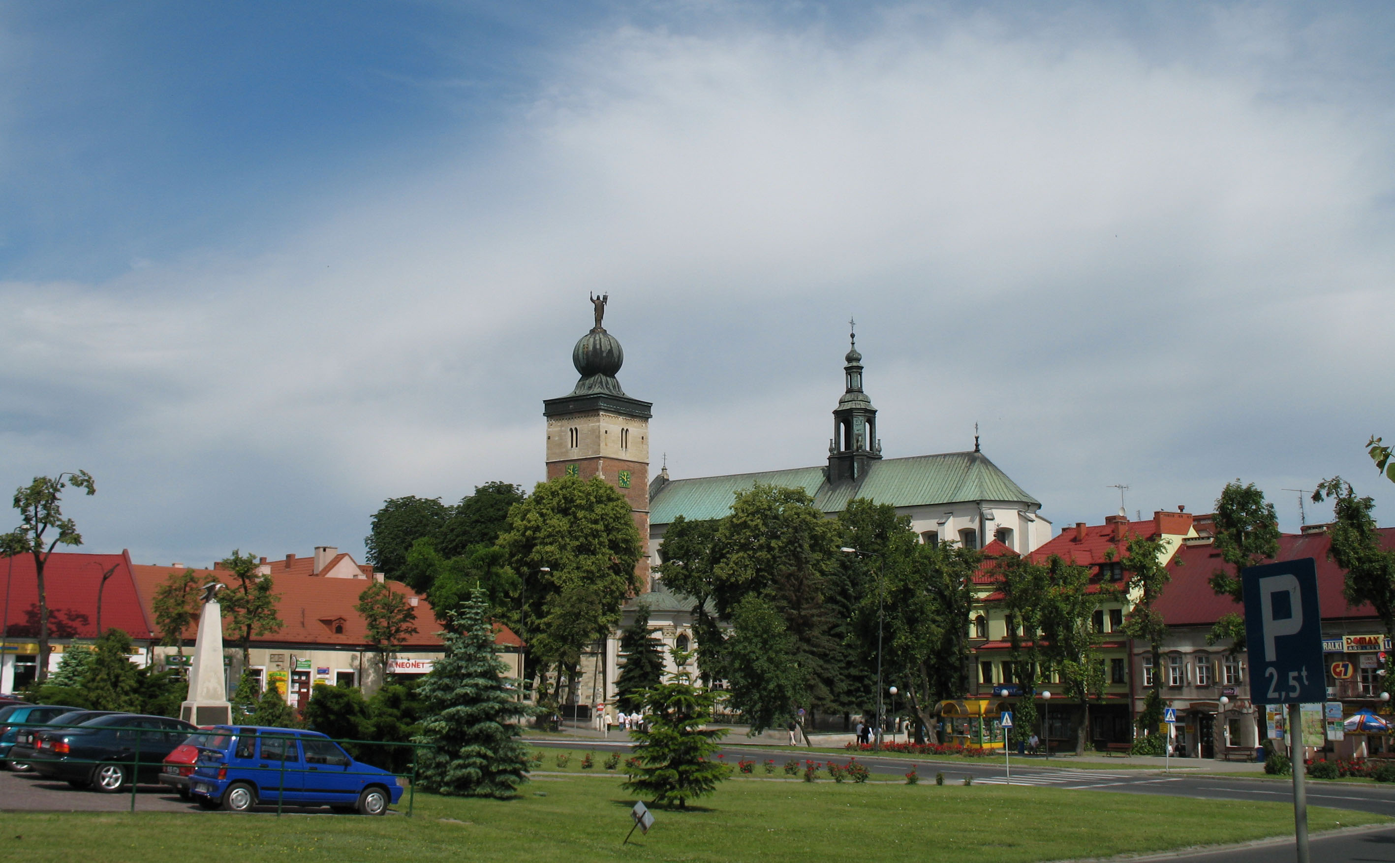 Basilica of the Holy Sepulchre in Miechów, Poland.